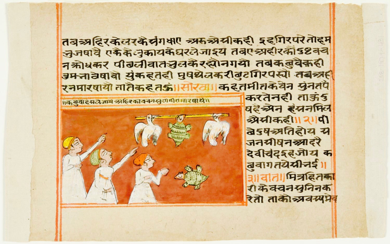 Source: Philadelphia Museum of Art The Talkative Turtle, a fable in Pancatantra Artist/maker unknown, Rajasthan, India, 18th century Medium: Opaque watercolor on paper Classification: Manuscripts Image: 2 3/8 × 4 1/2 inches (6 × 11.4 cm) Sheet: 6 × 9 1/2 inches (15.2 × 24.1 cm) Curatorial Department: South Asian Art Credit Line: Stella Kramrisch Collection, 1994 PMA Object Number: 1994-148-457